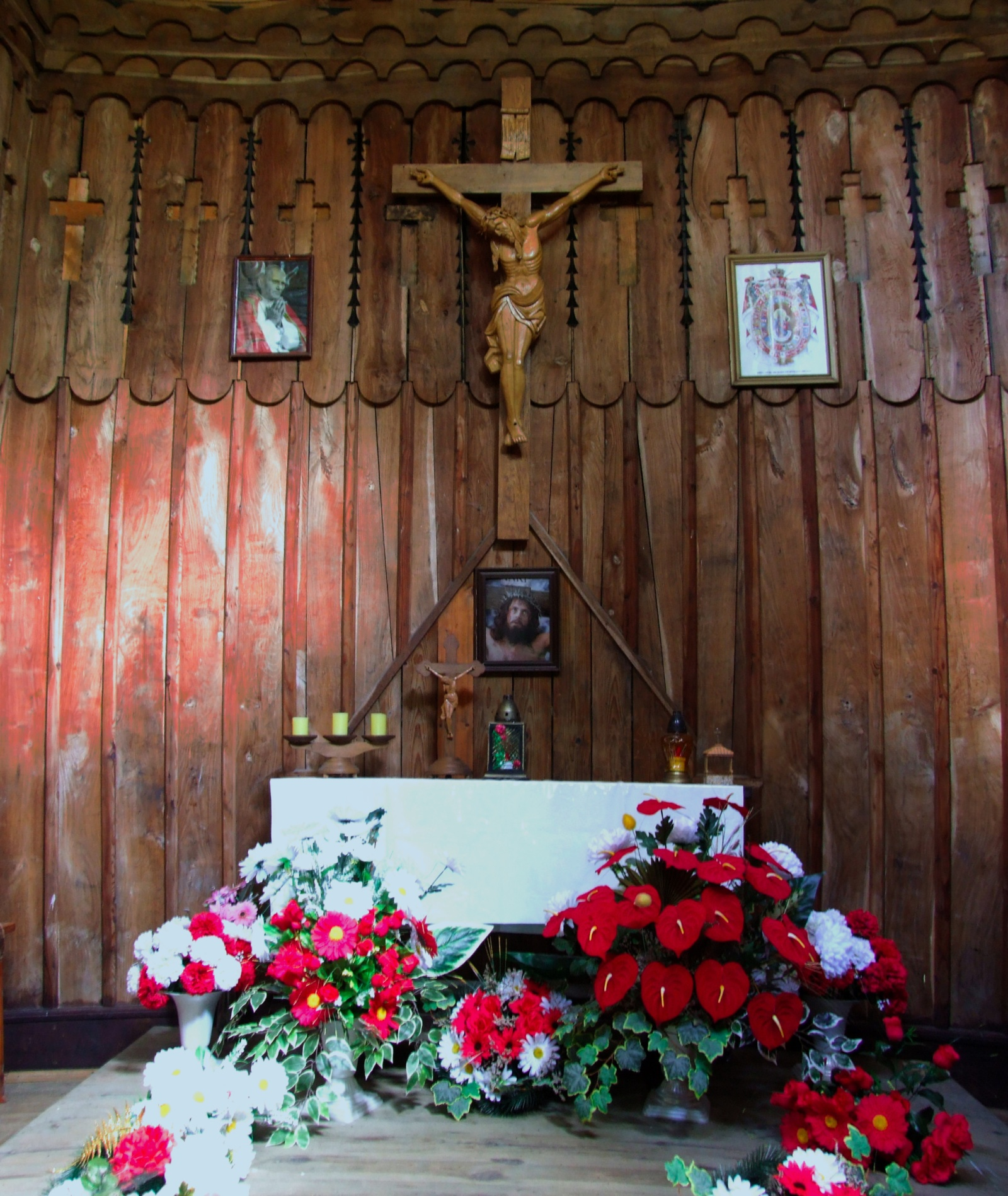 World War I Cemetery nr 357 in Kamionka Mała